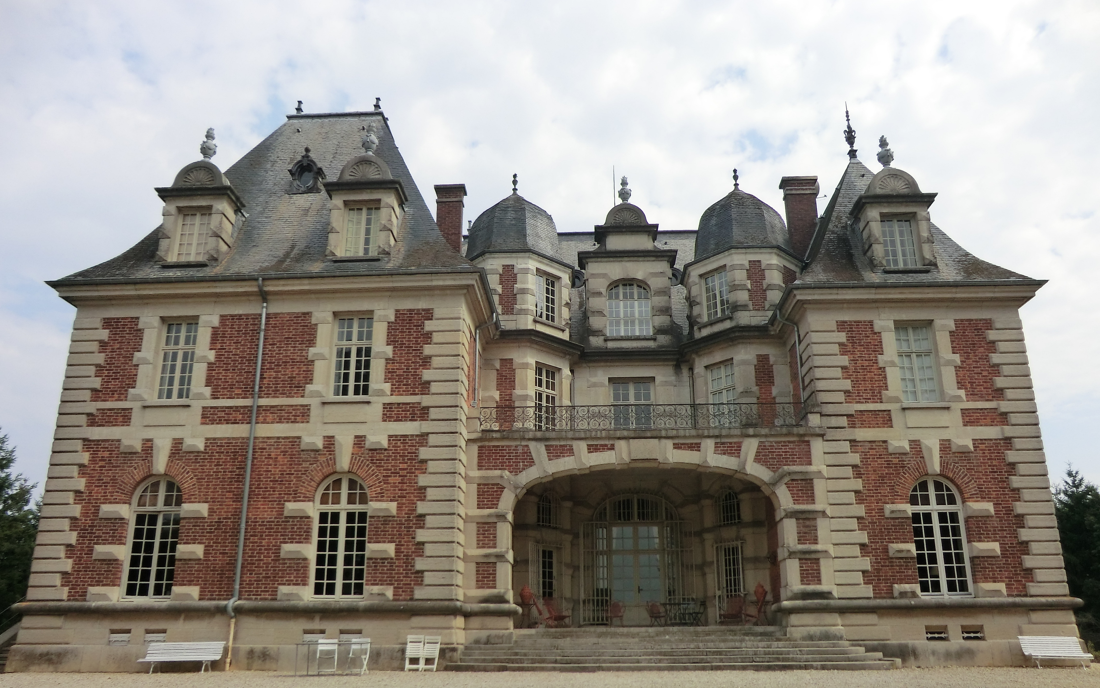 Château de Joyeux. .